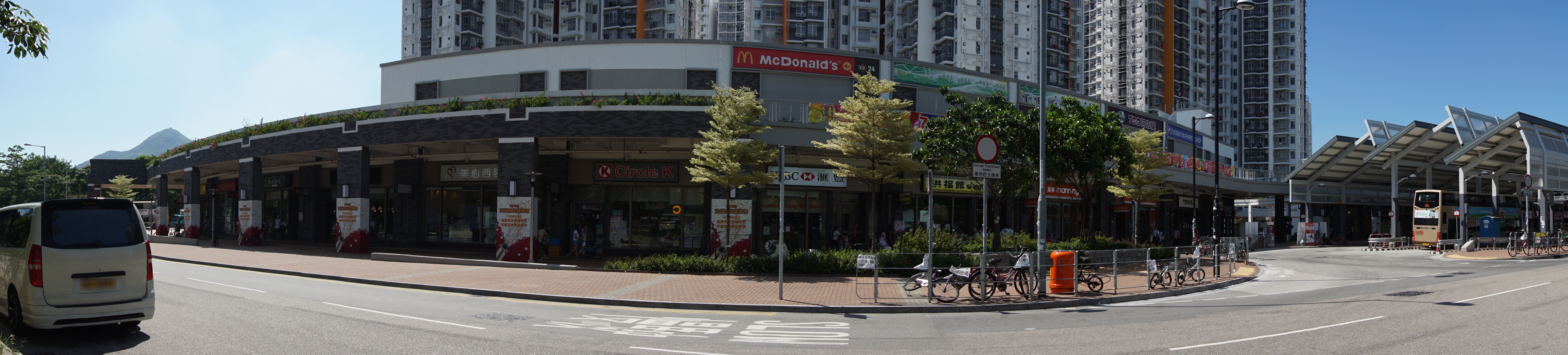 Hung Fuk Shopping Centre in Hung Shui Kiu, Hong Kong.